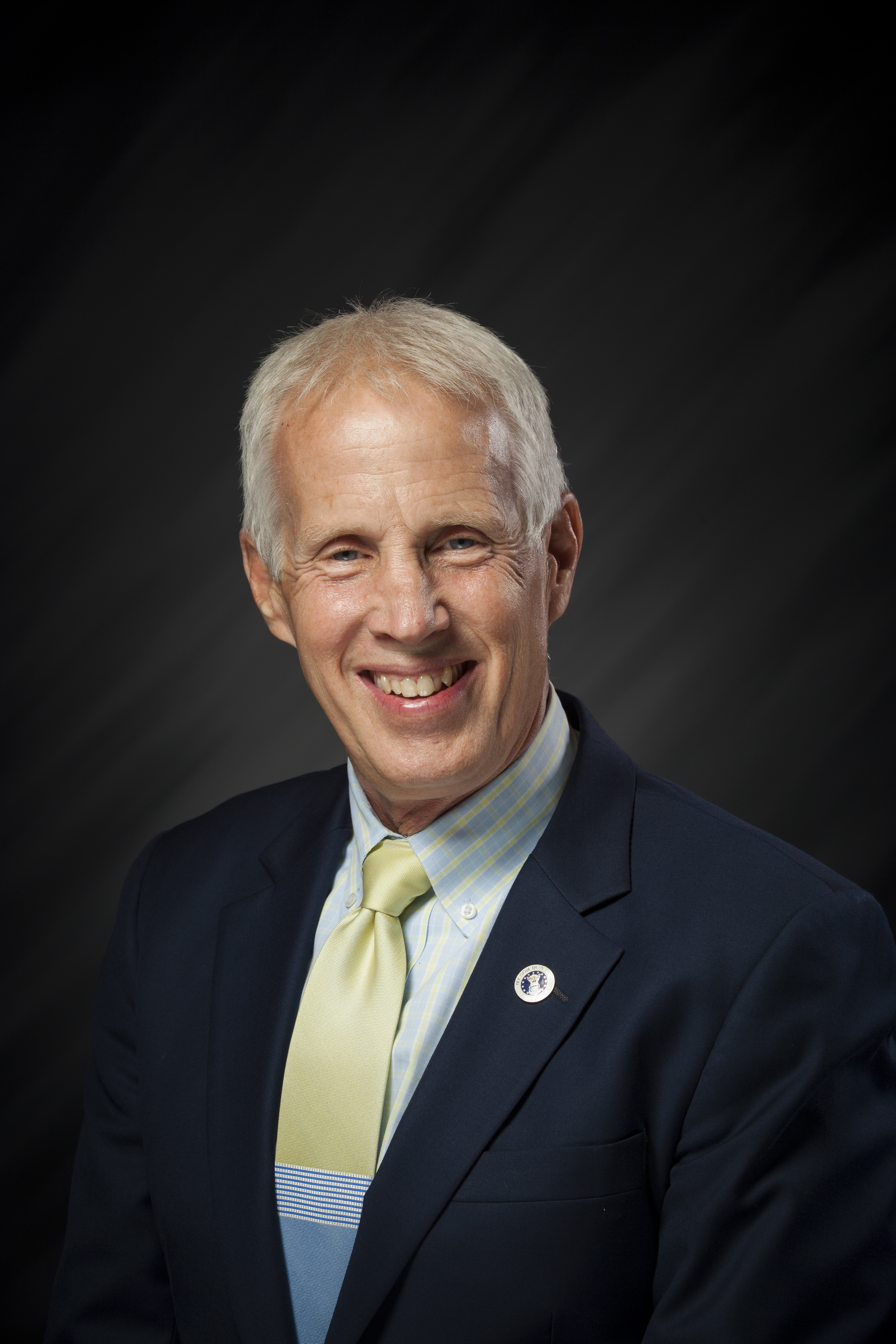 State Rep. Bob Behning